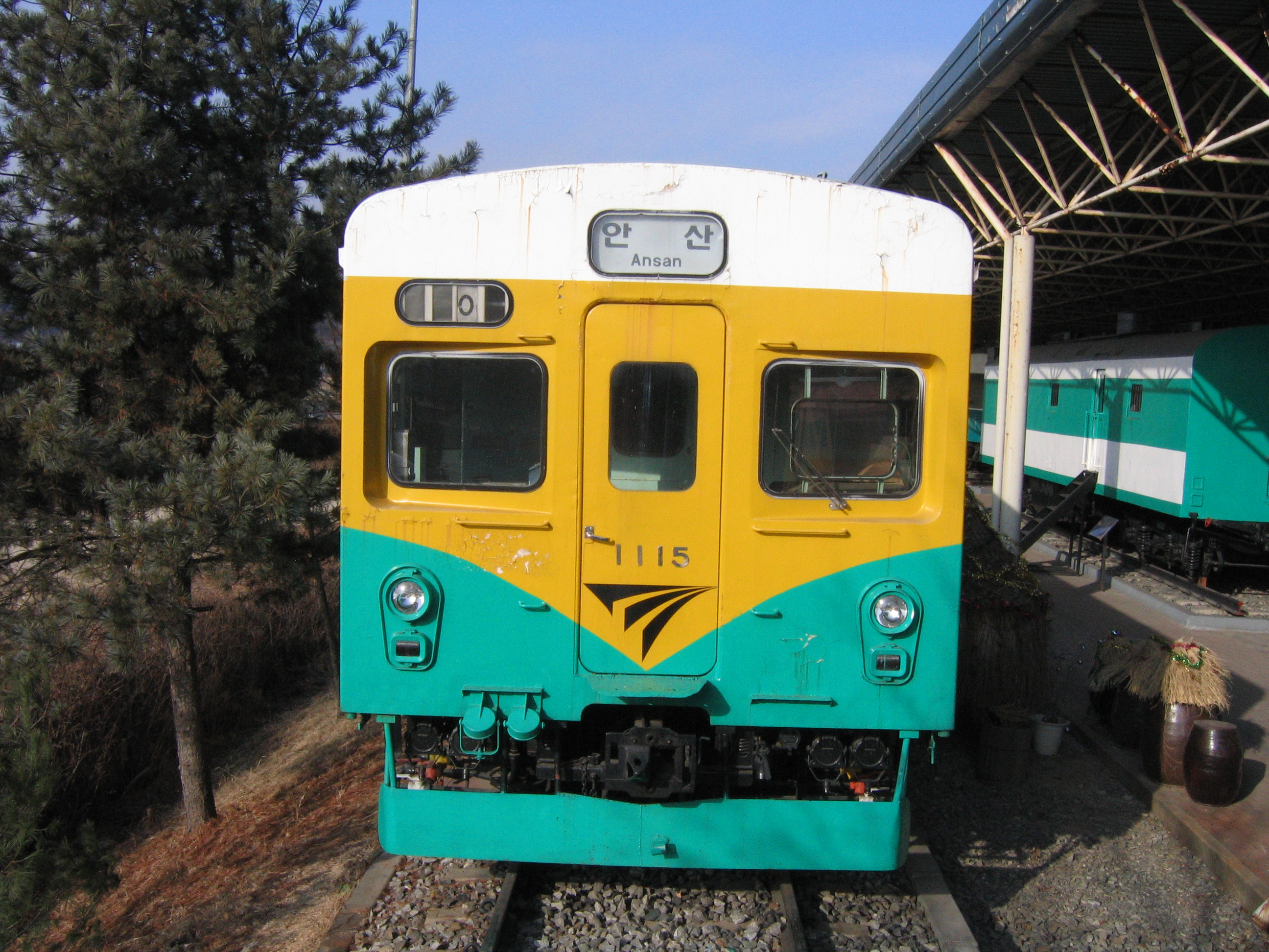 Korail 1115 preserved in Korea Railroad Museum.